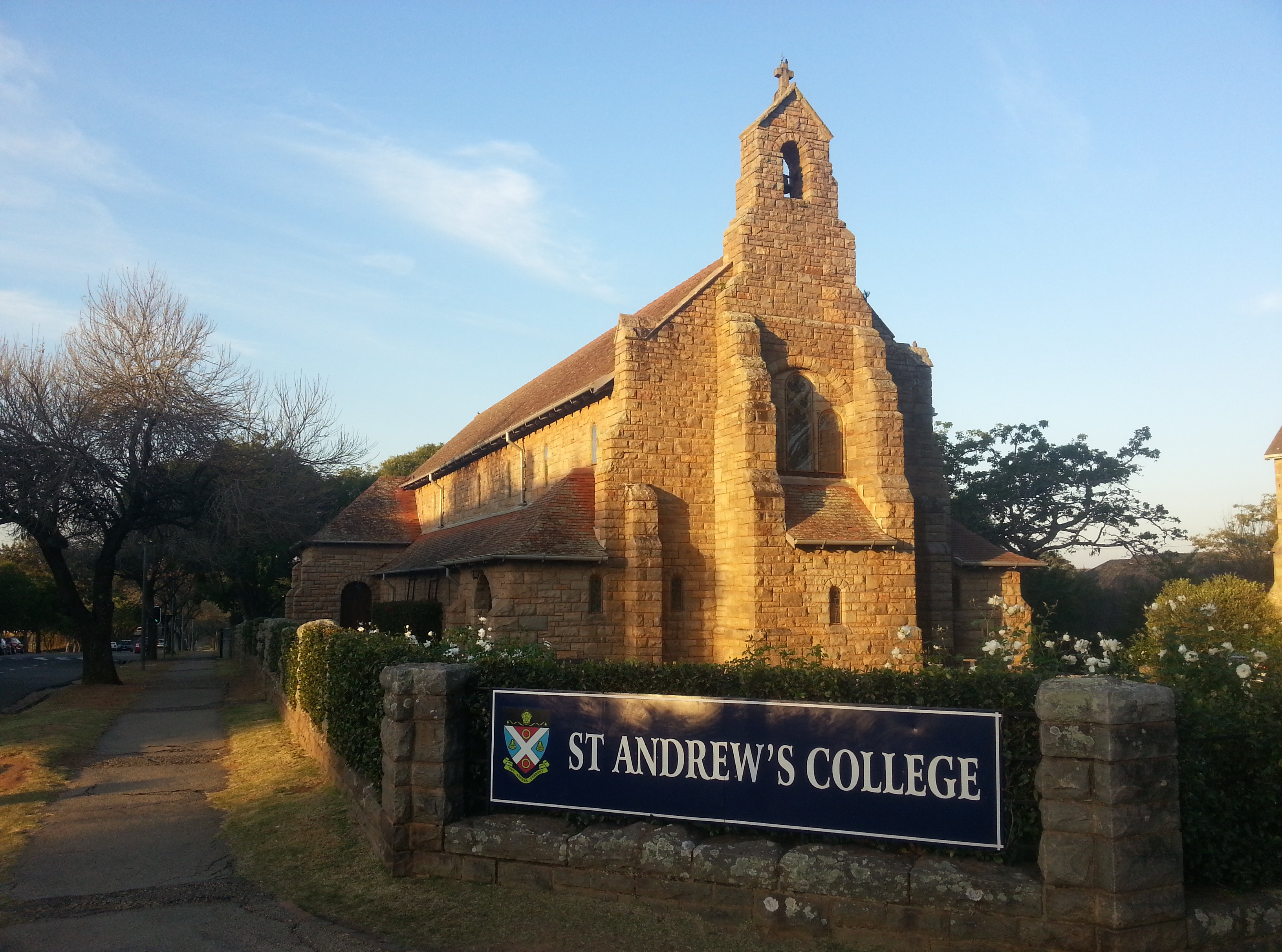 The chapel at Saint Andrew's College and Anglican school in Grahamstown, South Africa This media shows a South African Protected Site with SAHRA file reference 0000000000.